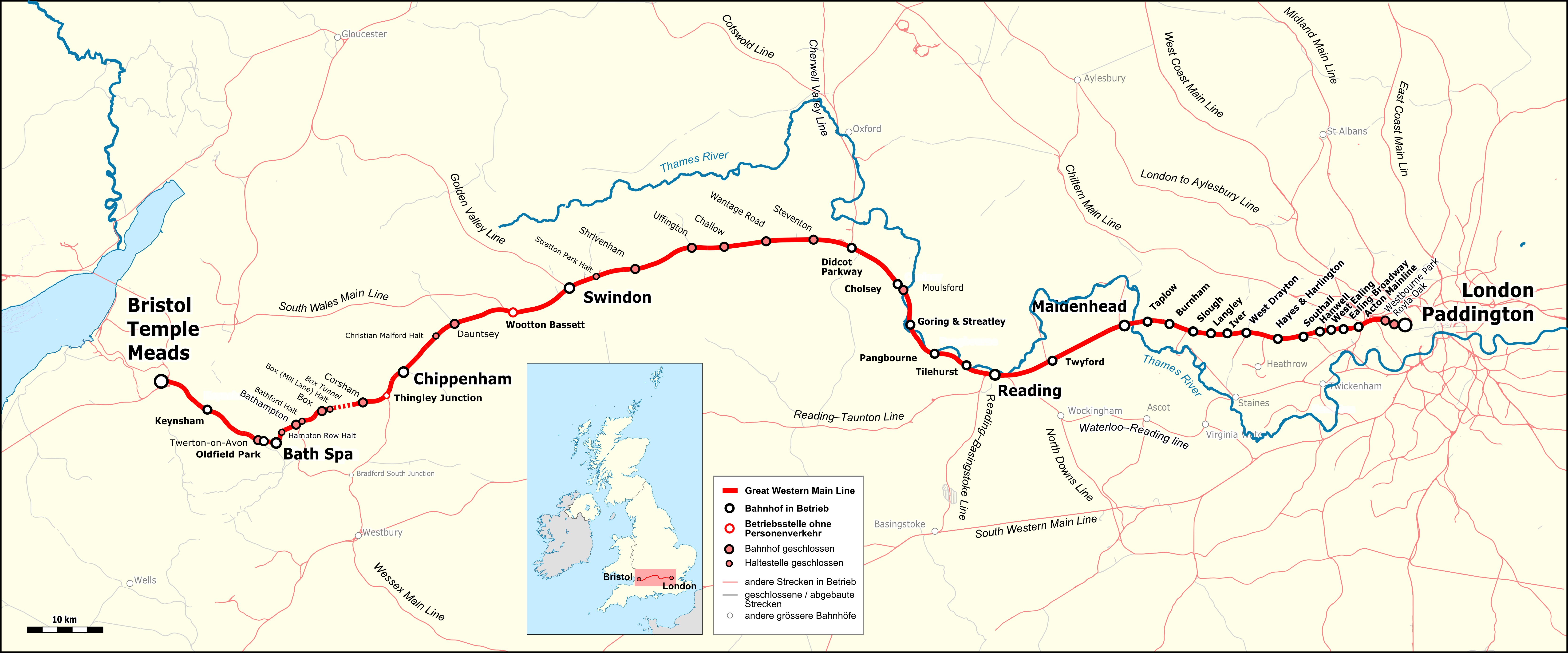 Map of the Great Western Main Line in UK. Index in German